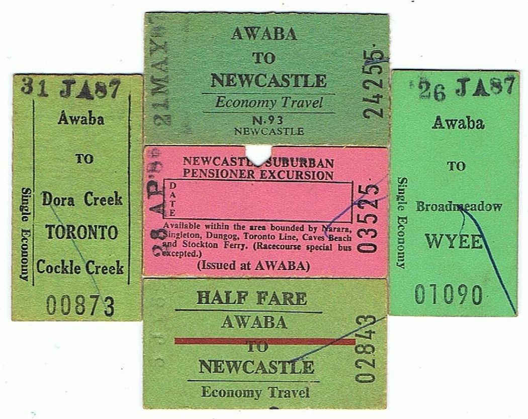 NSW Railway tickets issued at Awaba Railway Station 1980s including services to Newcastle and Central Coast.